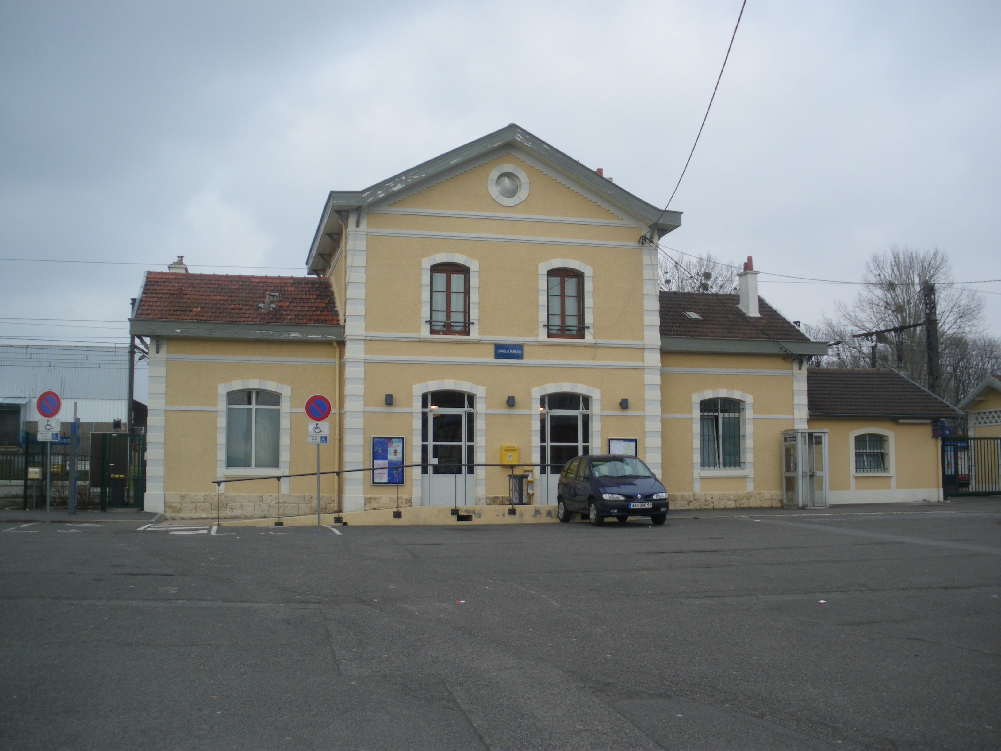 Lonjumeau Station, Paris's RER C line, Essonne, France